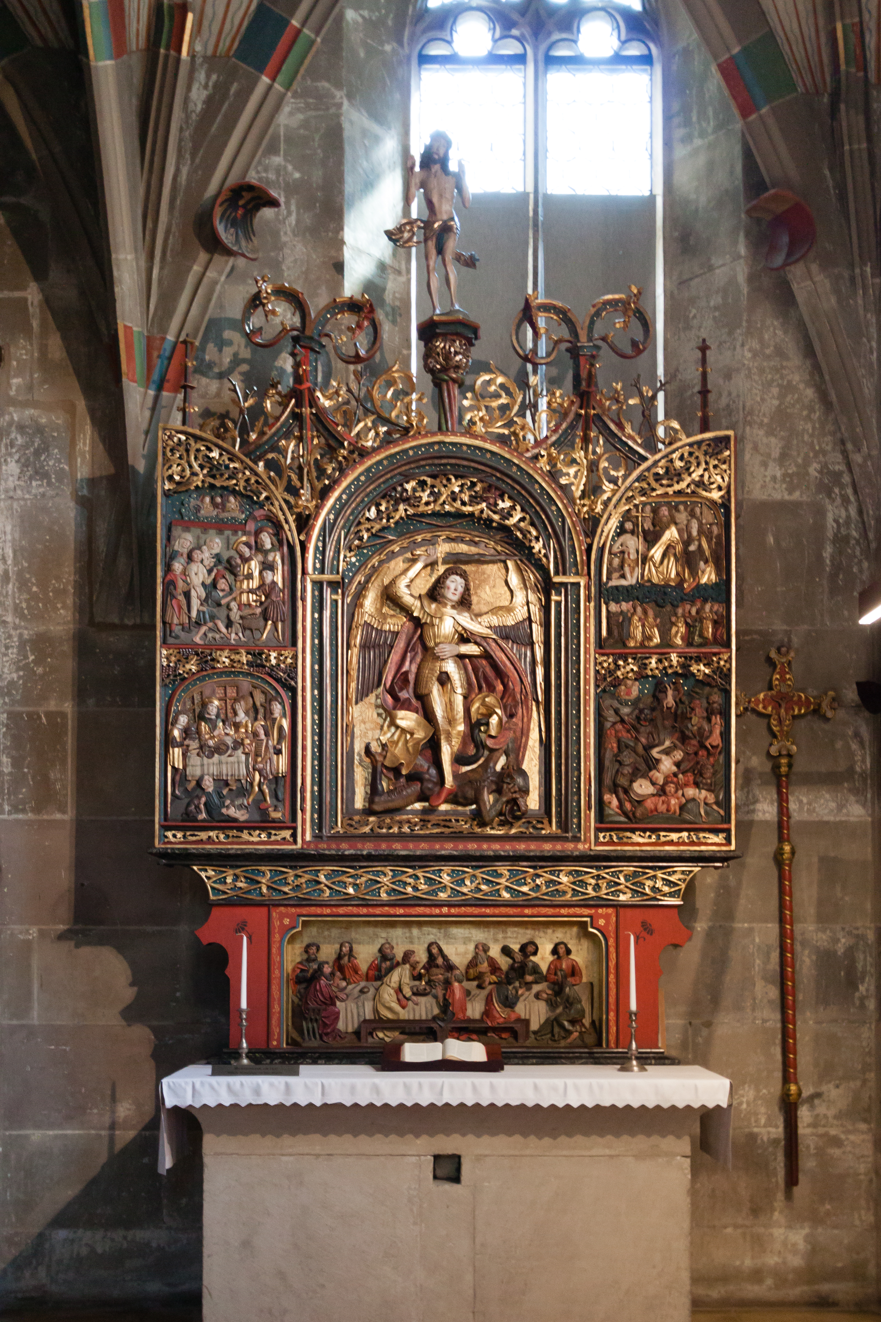 St. Michael Altar in St. Michael in Schwaebisch Hall Germany